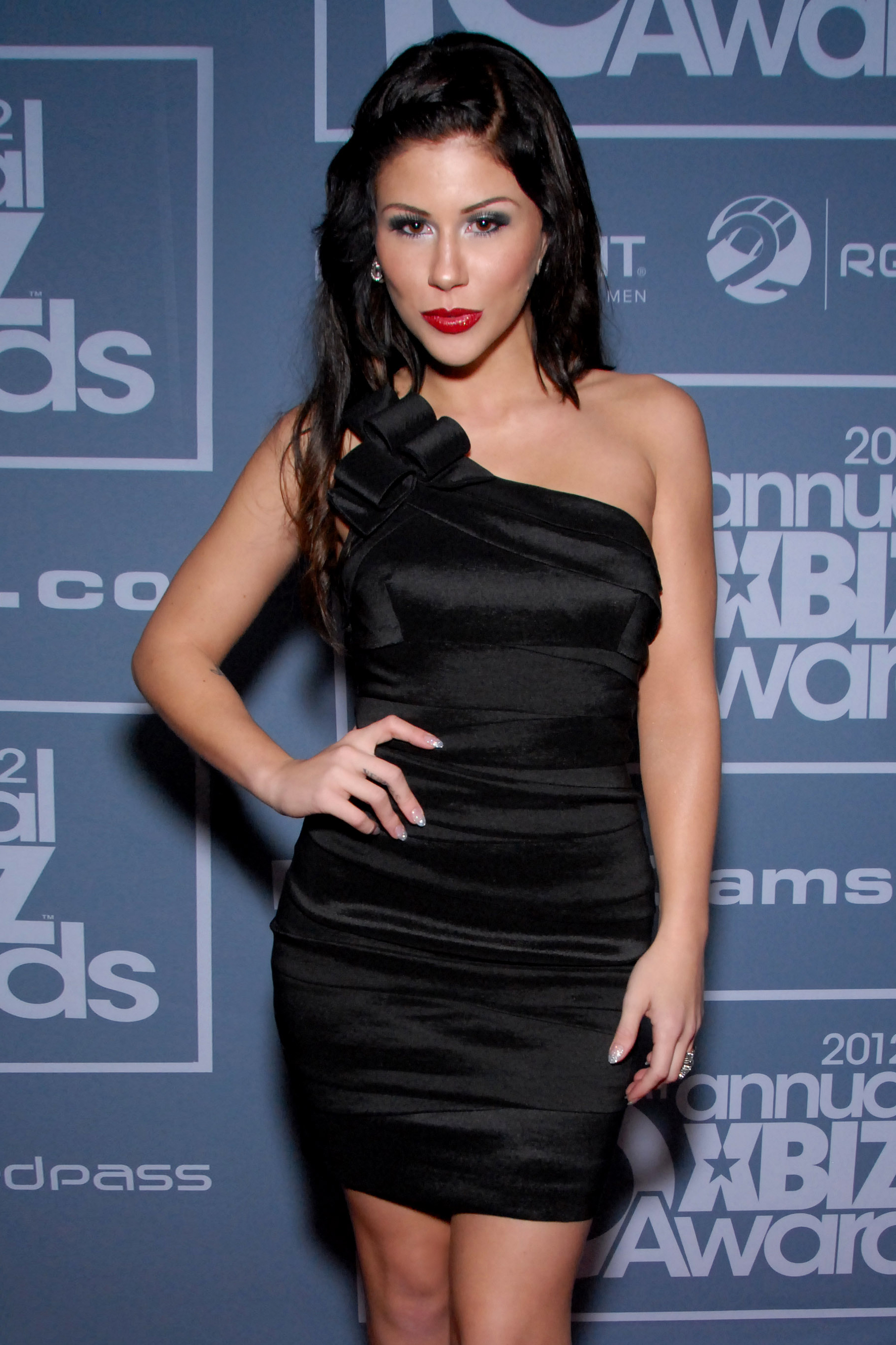 Brooklyn Lee at the XBIZ Awards in Santa Monica California on January 10, 2012 - Photo by Glenn Francis of